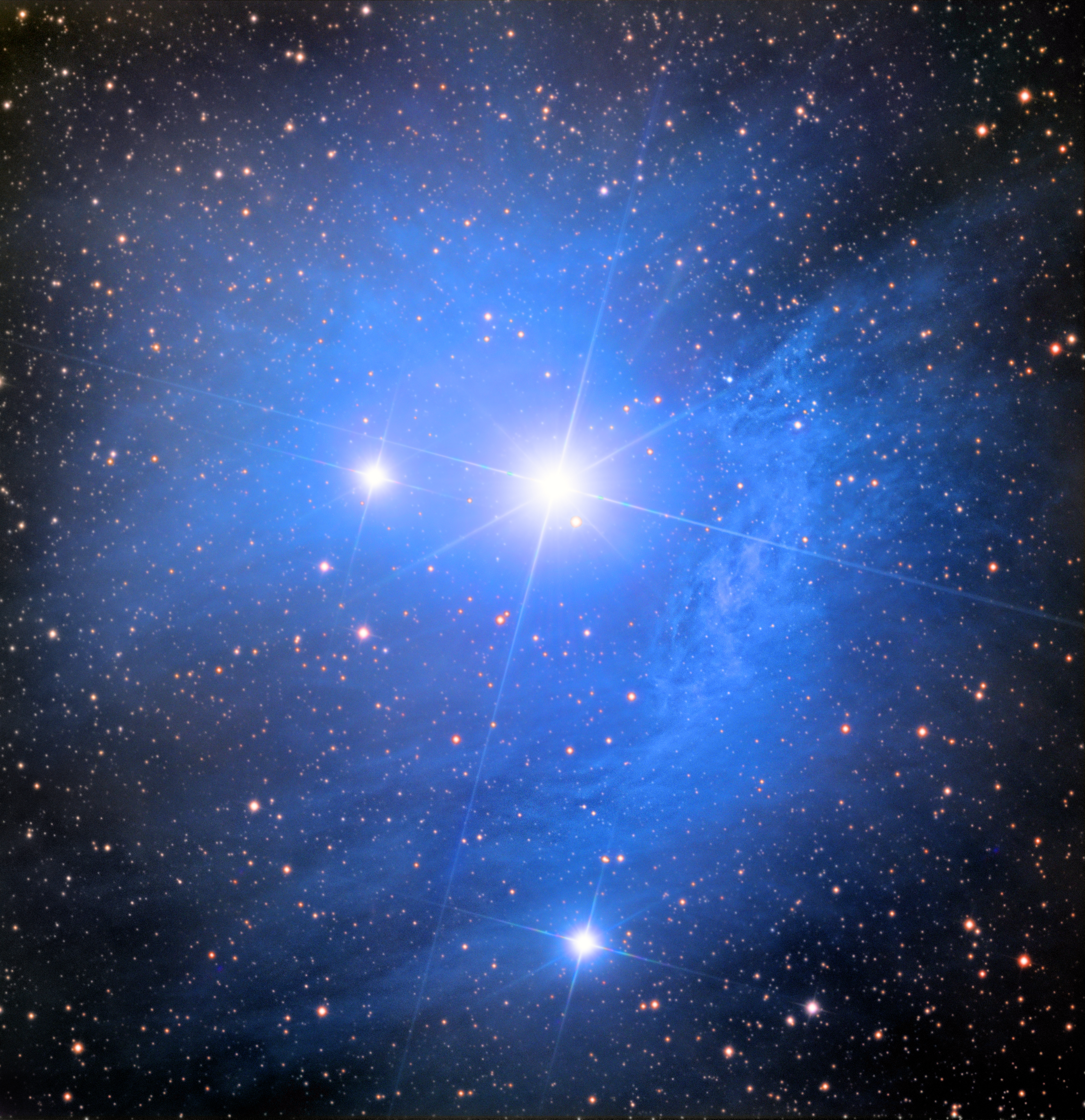 IC 4605 reflection nebula in 32 inch Schulman telescope on Mt. Lemmon, AZ, USA.